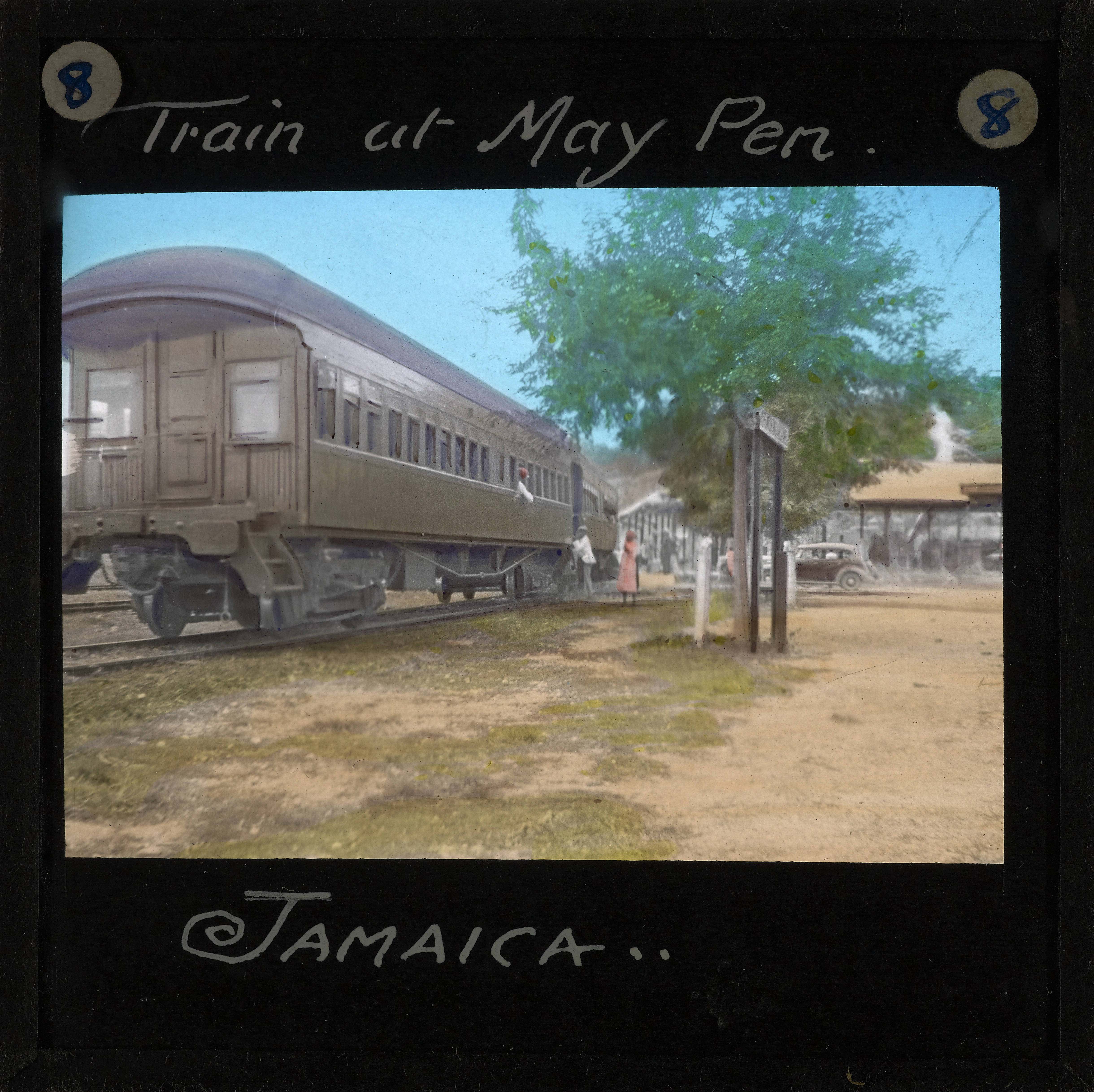 Railway Train at May Pen Station, Jamaica Photograph of a stationary railway carriage at May Pen Station. People can be seen both on board the train and standing outside the train. May Pen is the capital and largest town in the parish of Clarendon, Jamaica and is one of Jamaica’s most important agricultural towns.; The railway line running through May Pen linked to the Citrus growing areas in the north of the parish and also to Lionel Town and its sugar production in the South. Photographer: Unknown Filename: imp-cswc-GB-237-CSWC47-LS12-008.tif Coverage date: after 1900 Part of collection: International Mission Photography Archive, ca.1860-ca.1960 Type: images Part of subcollection: Photographs from the Centre for the Study of World Christianity, University of Edinburgh, U.K., ca.1900-ca.1940s Repository name: Centre for the Study of World Christianity Archival file: impaunpub_Volume7/1341.url Geographic subject (city or populated place): May Pen Repository address: The University of Edinburgh School of Divinity, New College, Mound Place, Edinburgh EH1 2LX, United Kingdom Geographic subject (country): Jamaica Format (aacr2): 1 lantern slide : 8 x 8 cm. Geographic subject (continent): North and Central America Rights: Contact the repository for details. Part of series: The Jamaican Church in the Bush LS12 Repository Subject (lcsh Keyword): Railroads; Trade routes Date created: after 1900 Publisher (of the digital version): University of Southern California. Libraries Subject (aat genre): external views Format (aat): lantern slides Legacy record ID: impa-m68276 Access conditions: File: GB 237 CSWC47/LS12/8